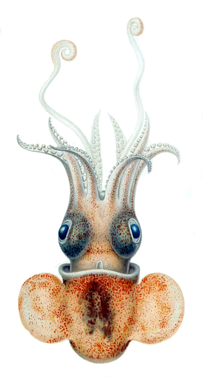 Female Austrorossia mastigophora (ca. 45 mm ML) from the east African coast